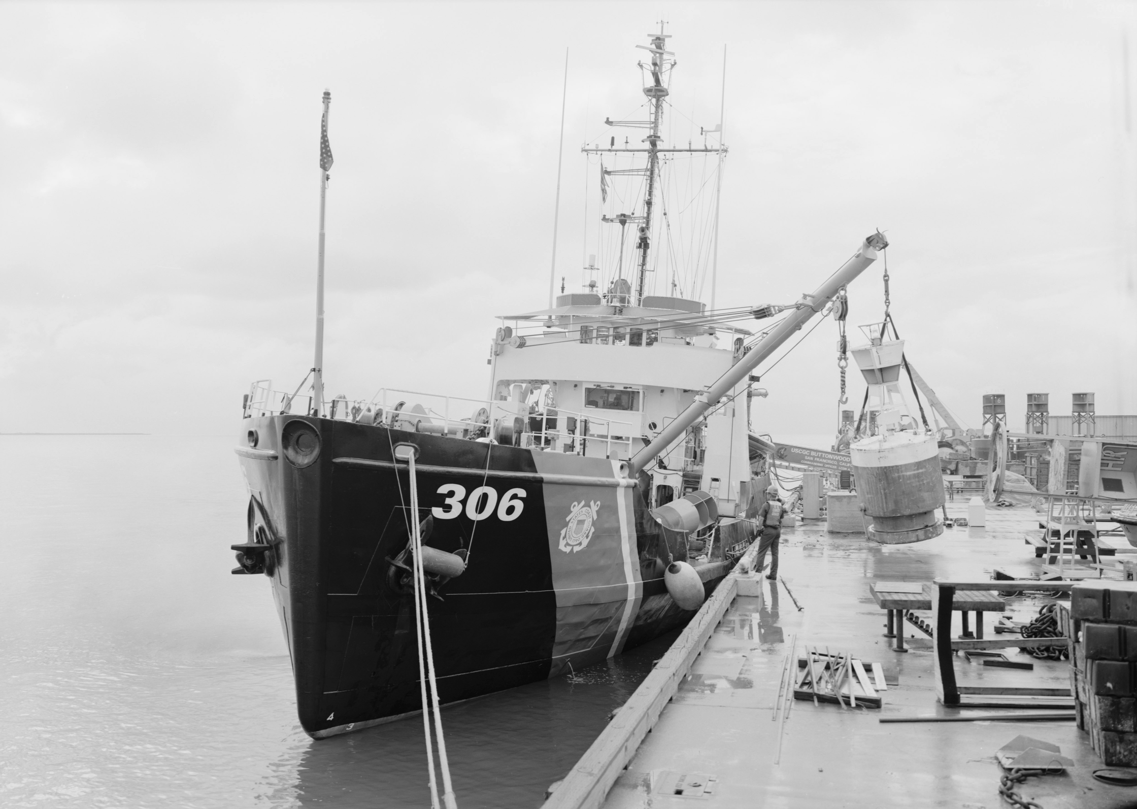 USCGC Buttonwood at Yerba Buena Island